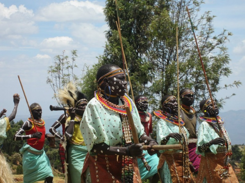 Marakwet dancers